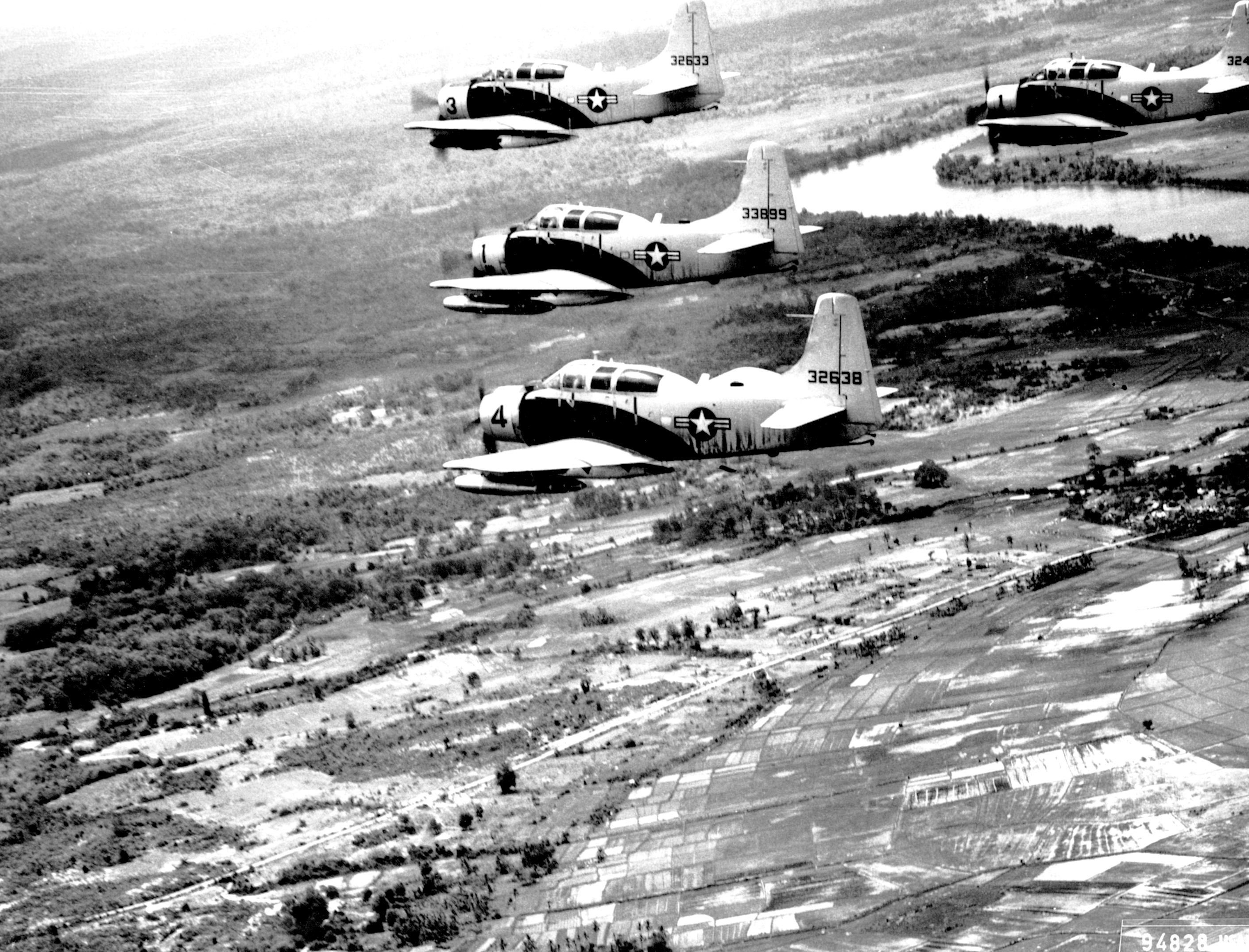 Four Douglas A-1E Skyraider aircraft fly in formation over South Vietnam on way to target on 25 June 1965. The aircraft were assigned to the 34th Tactical Group based at Bien Hoa, South Vietnam. The A-1E 133899 was lost on 9 June 1966, 132633 on 10 November 1966, and 132638 on 4 May 1967. (U.S. Air Force photo)